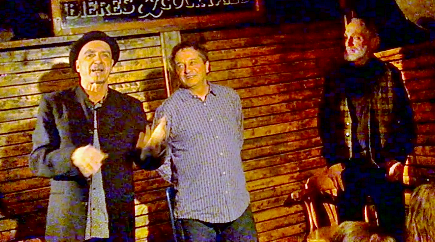 Michel Faubert, Jocelyn Bérubé & Alain Lamontagne photographed in Montréal , Québec, Canada at the Jockey Bar.